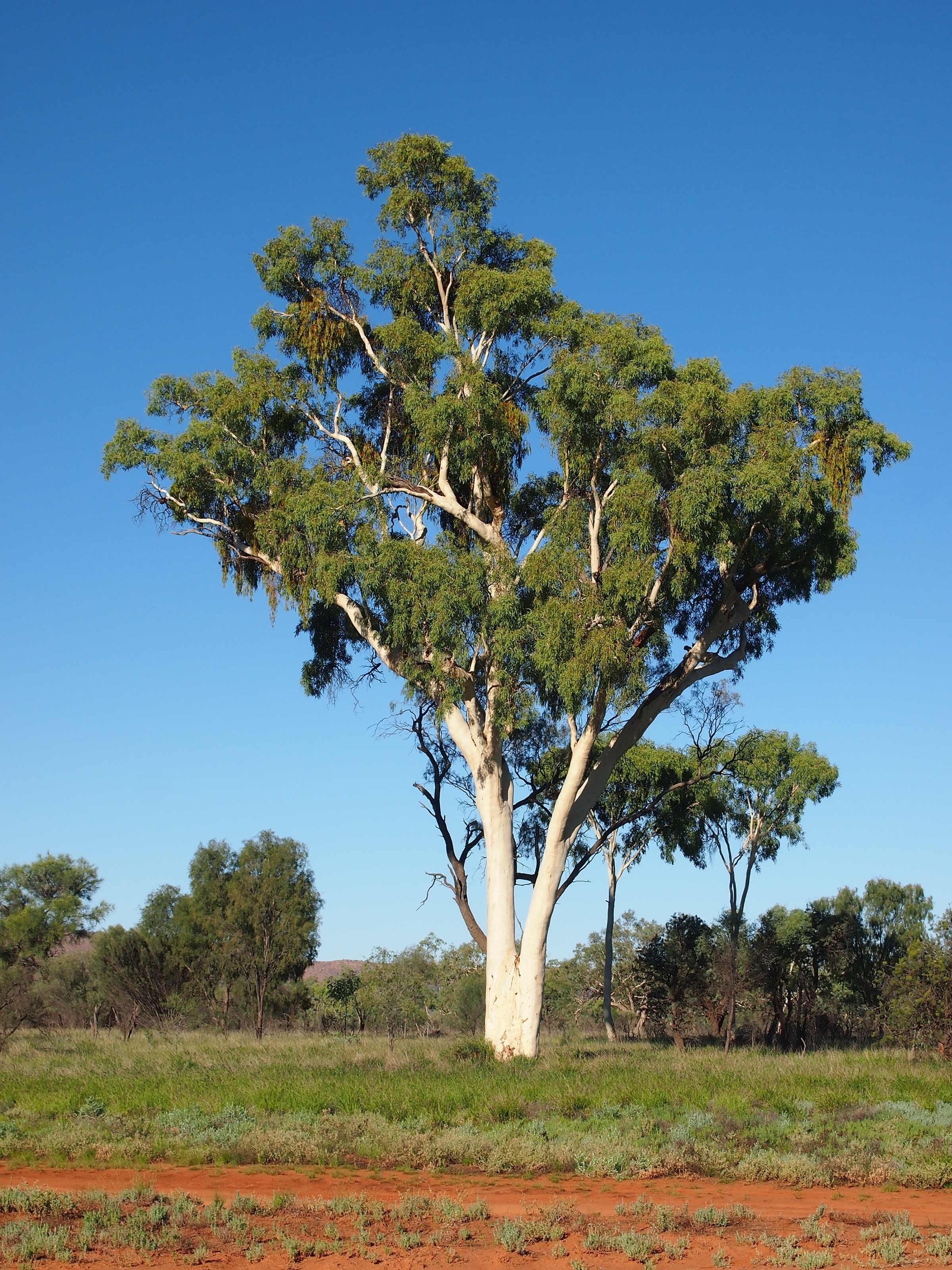 Corymbia aparrerinja